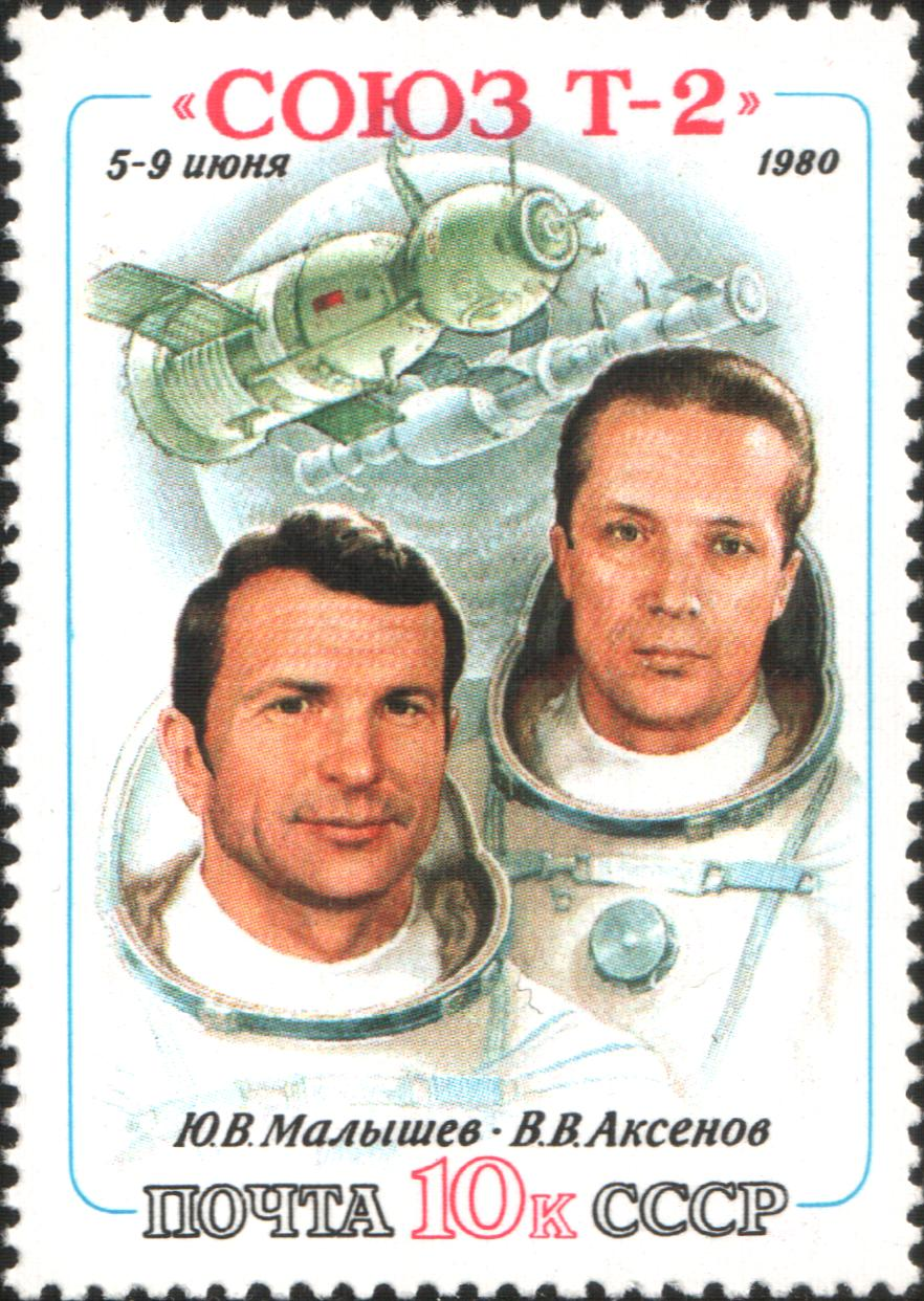 USSR Post